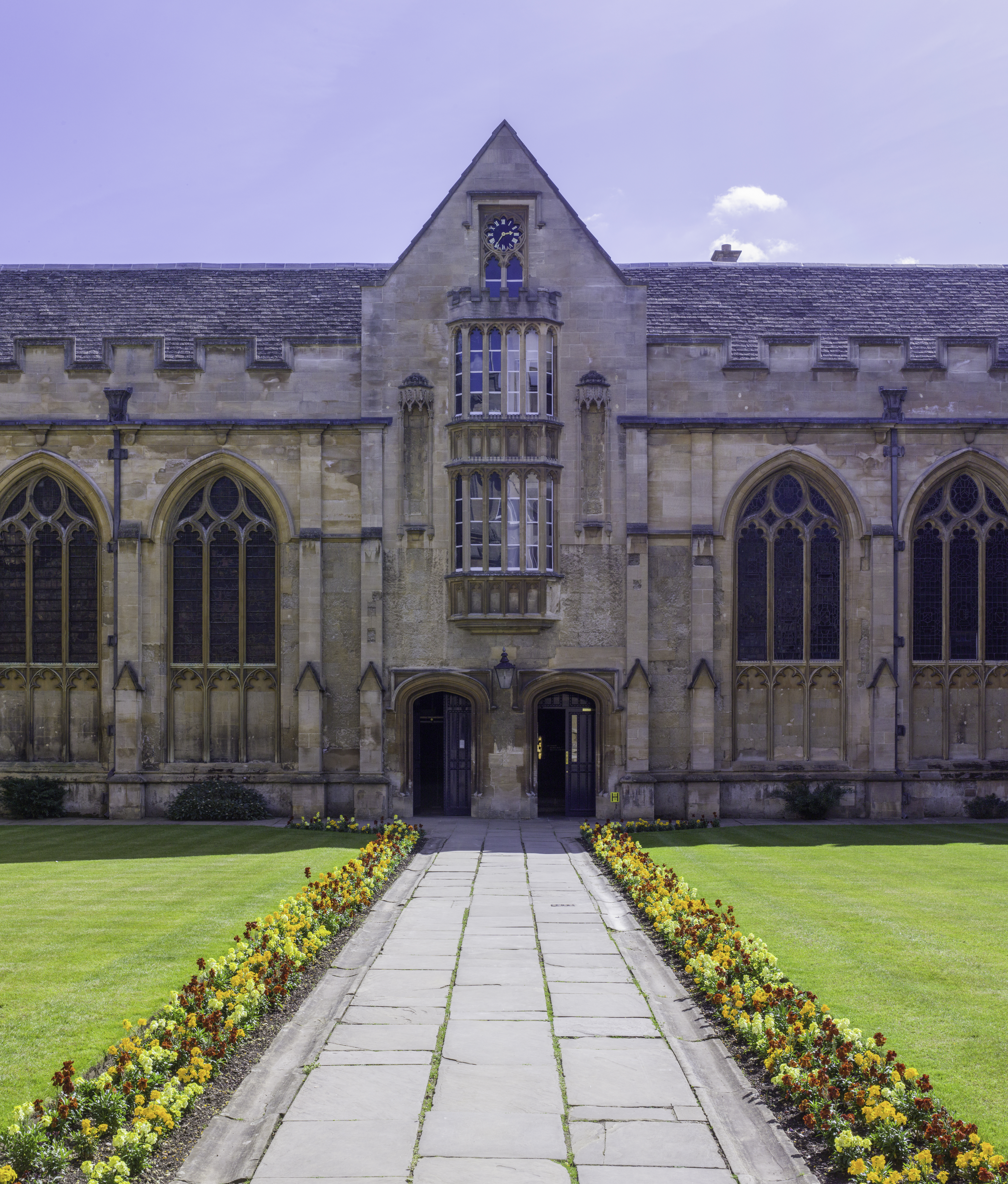 University College (Oxford University) founded in 1249. Main Quadrangle.